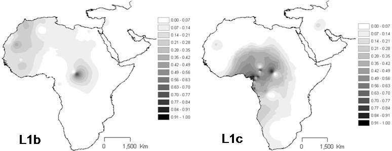 Interpolation maps for haplogroup L1b and L1c in the sub-Saharan pool observed in each sample.